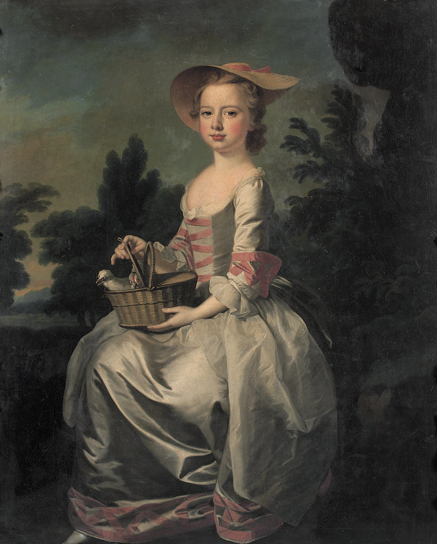 Albinia Bertie Albinia Bertie (1738-1816) as a young girl oil on canvas 136 x 112 cm